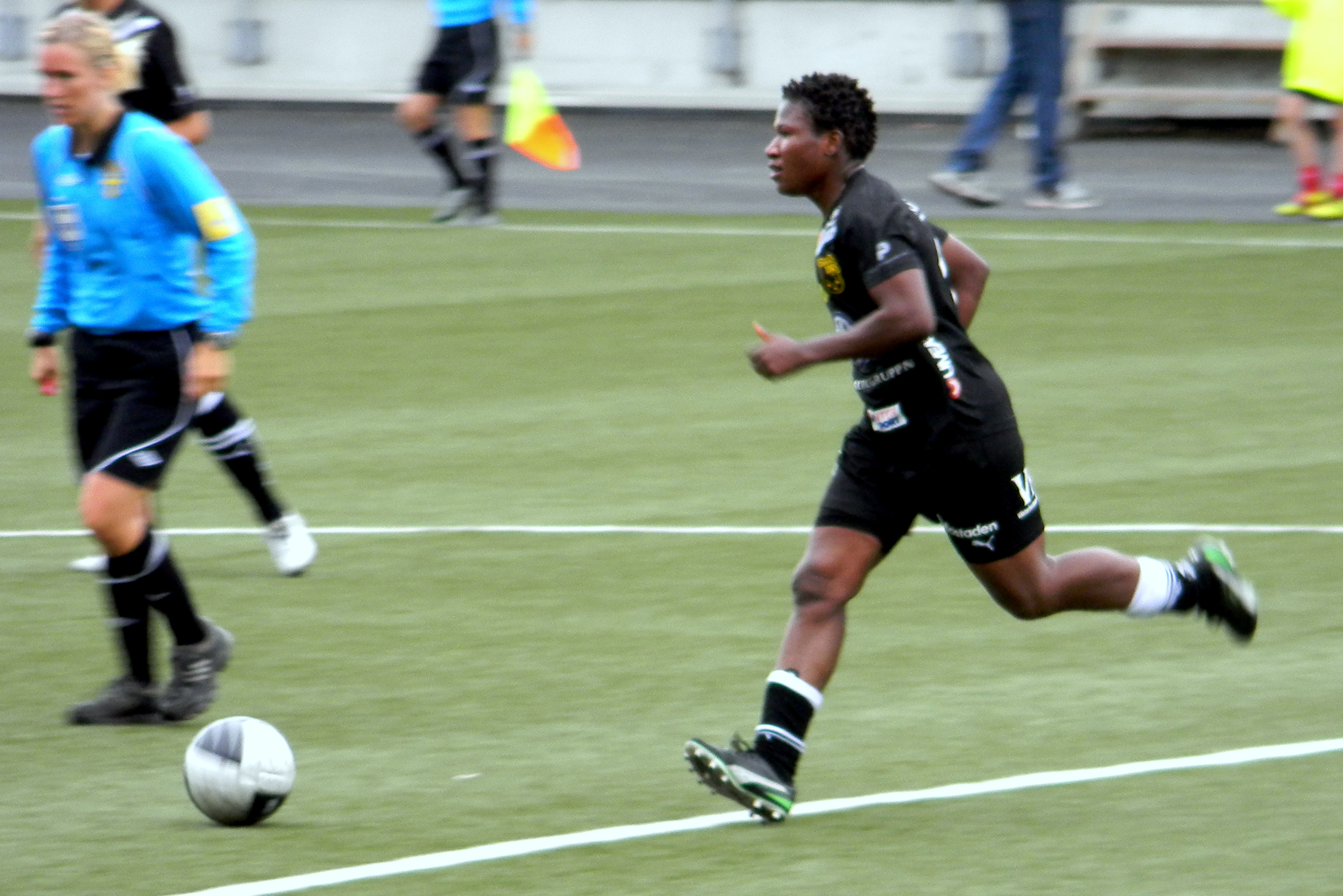 Rita Chikwelu, a nigerian player from Umeå IK